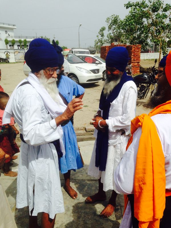 Dharam Singh Nihang having Gurmat discussions with Fellow Nihangs